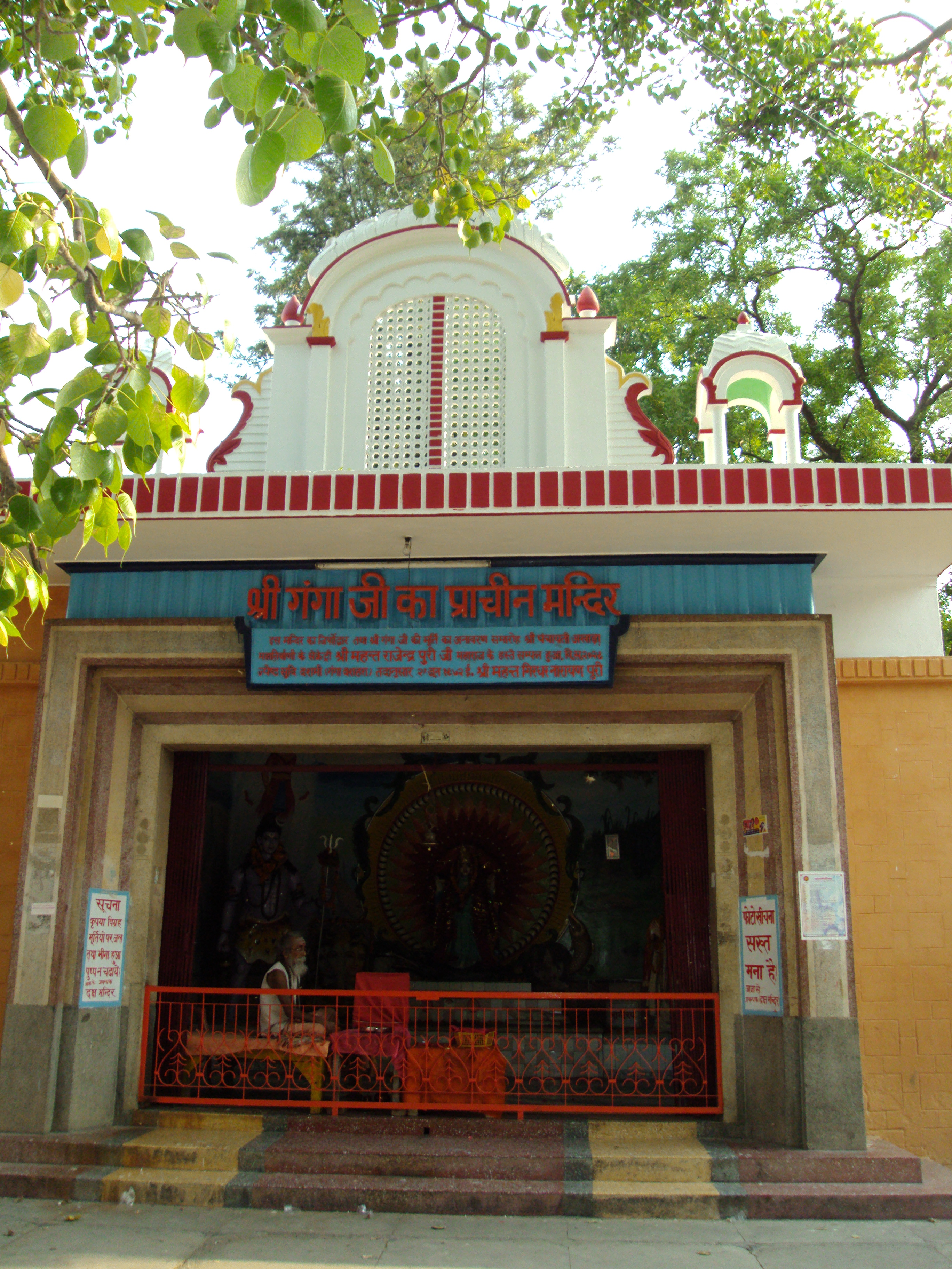 Ganga Maa temple within Daksheswara Mahadev temple, Kankhal